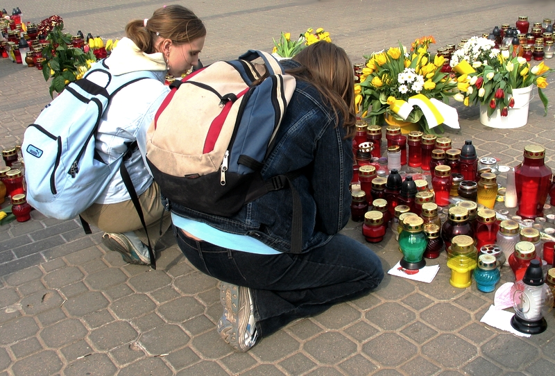 Warszawa Plac Piłsudskiego 7 april 2005 - released in 2005 by author M. Betley